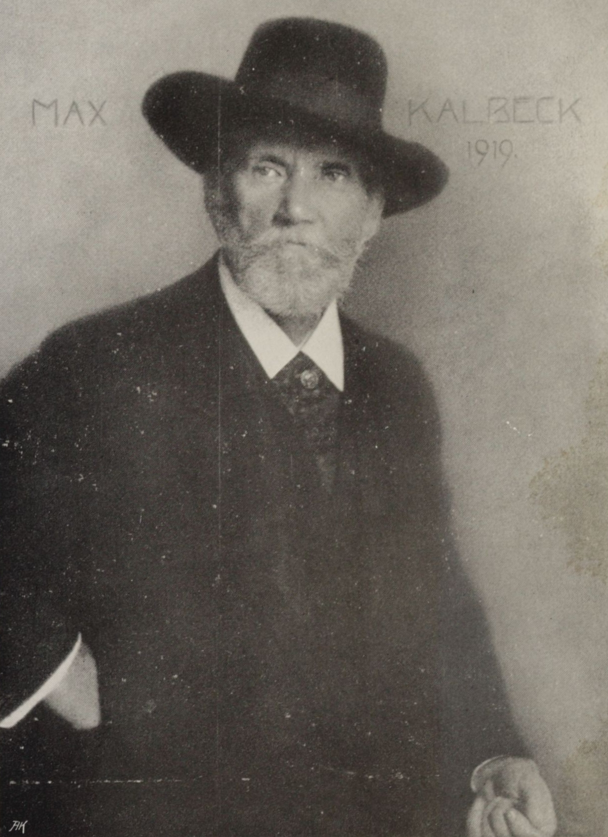 Max Kalbeck (1850–1921), German writer, critic and translator.